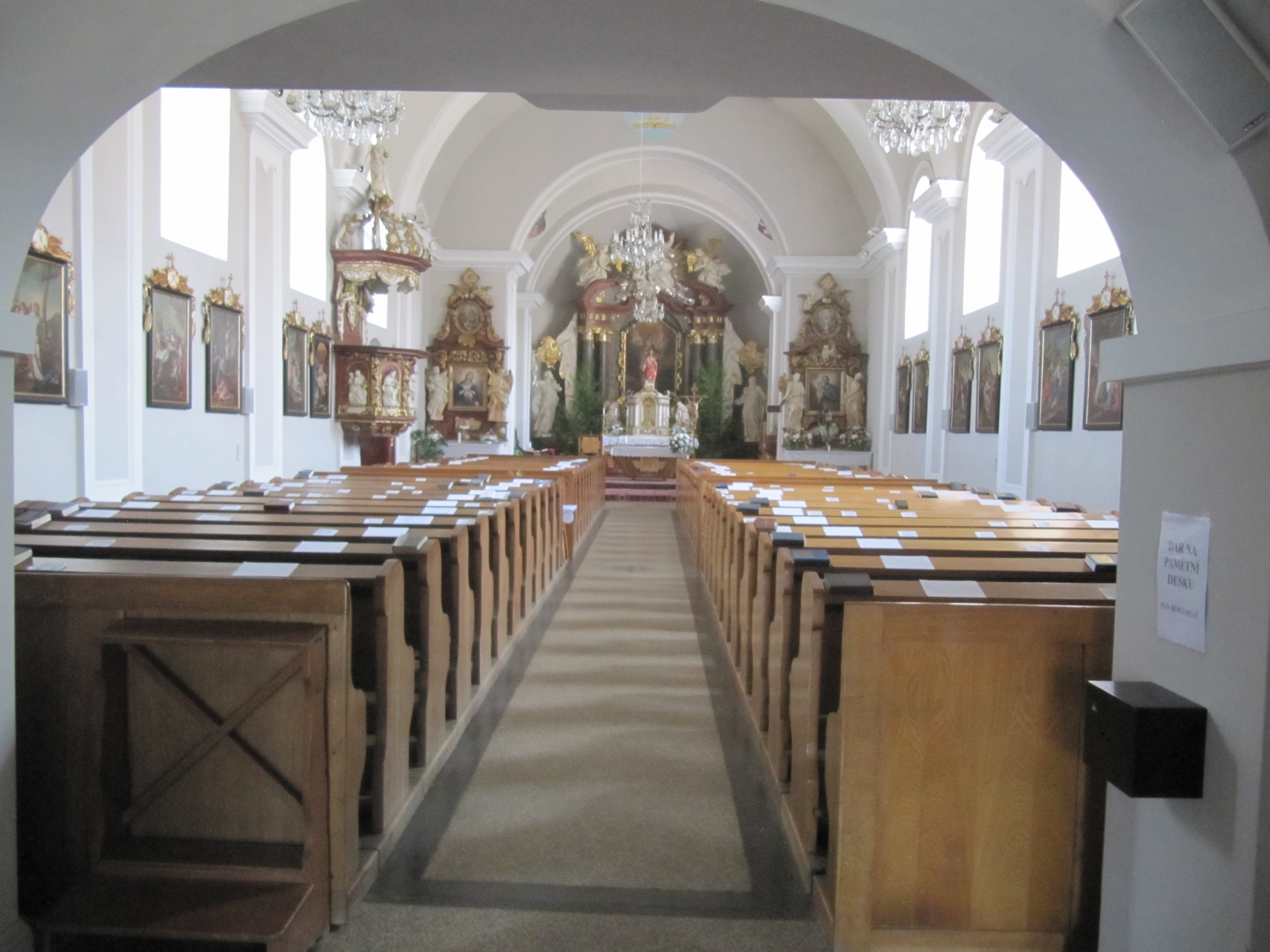 Březová, Opava District, Czech Republic.